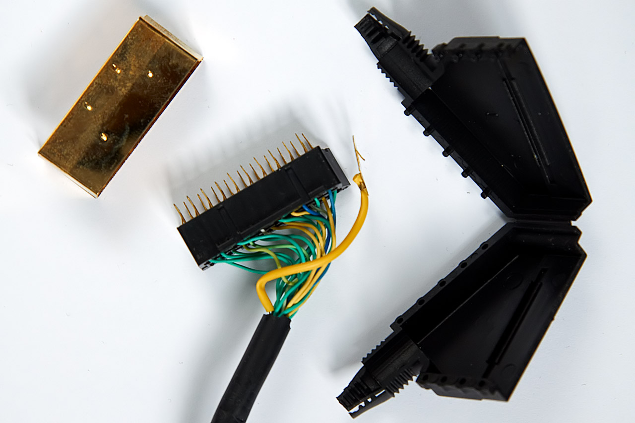 SCART connector (21 wires) from a switch box.